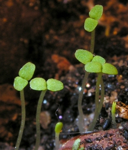 The seedlings of Hypericum perforatum. The age of the plants is 5-6 days, its height is 6-8 mm.